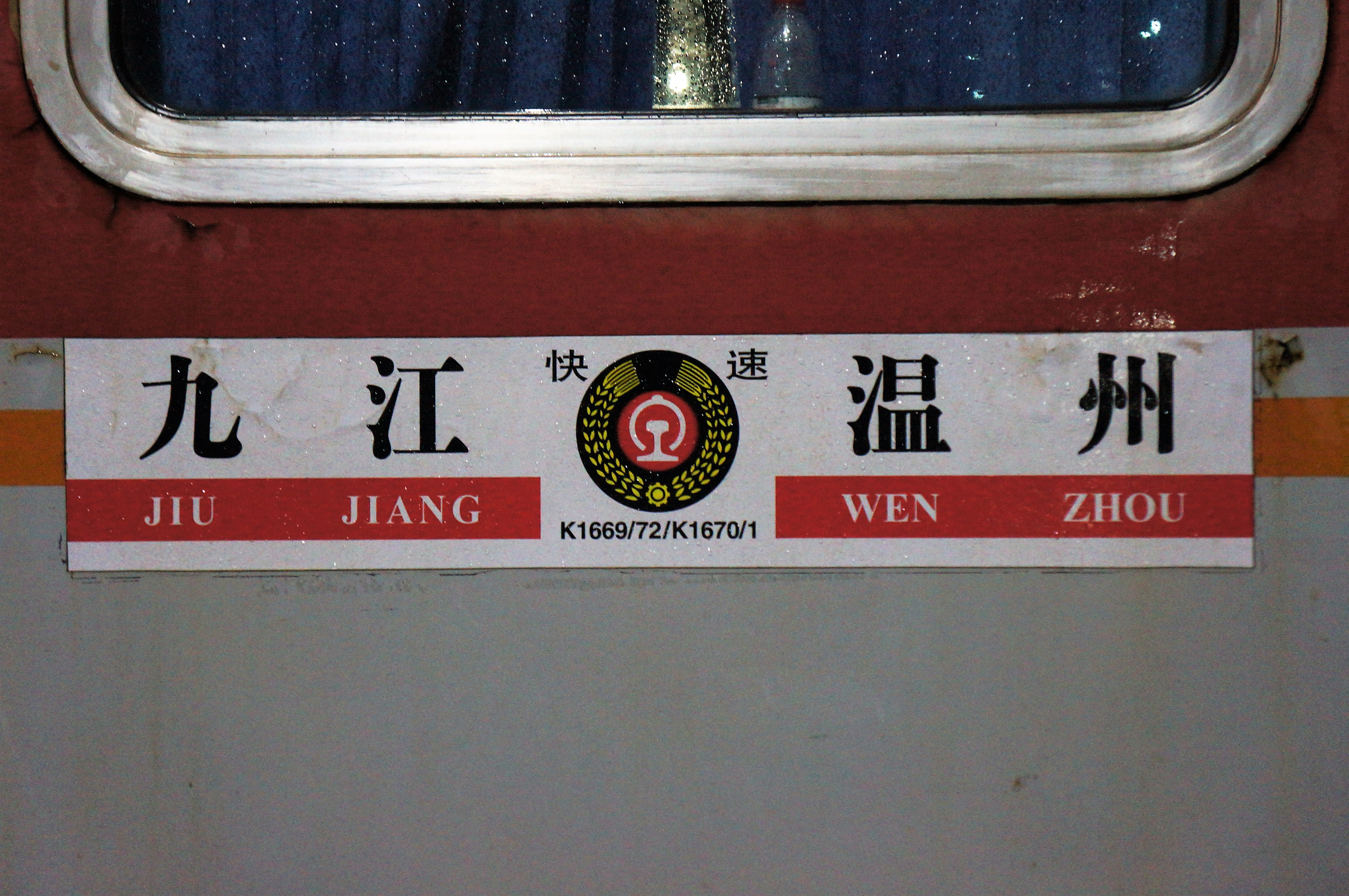 Taken at Jinhua Station